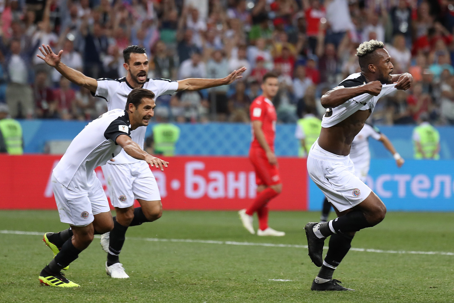 Kendall Waston celebrating the equaliser 1-1 against Switzerland at the 2018 FIFA World Cup.